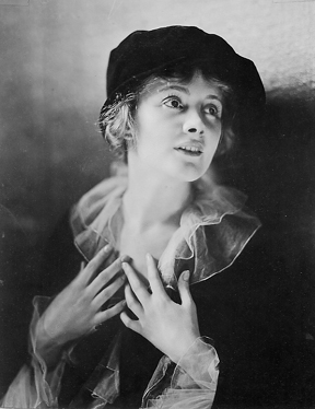 Jeanne Eagels in the 1918 Broadway play Daddies as Ruth Atkins, a 17 year old English war orphan.